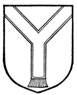 Fig. 154.—Ecclesiastical pallium.